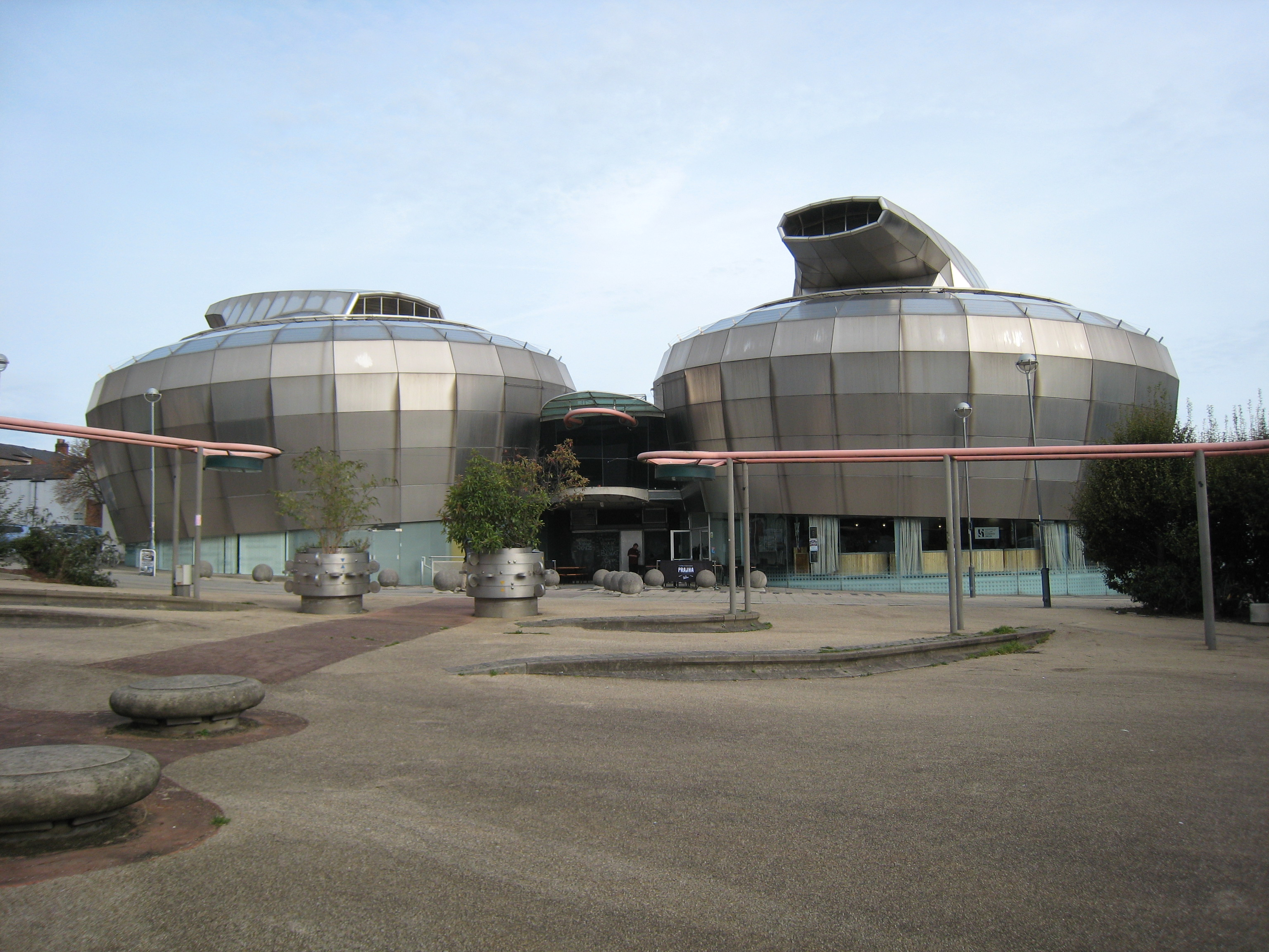 The Students Union buildings at Sheffield Hallam University. The unusual shape is because they were built as the National Centre for Popular Music.